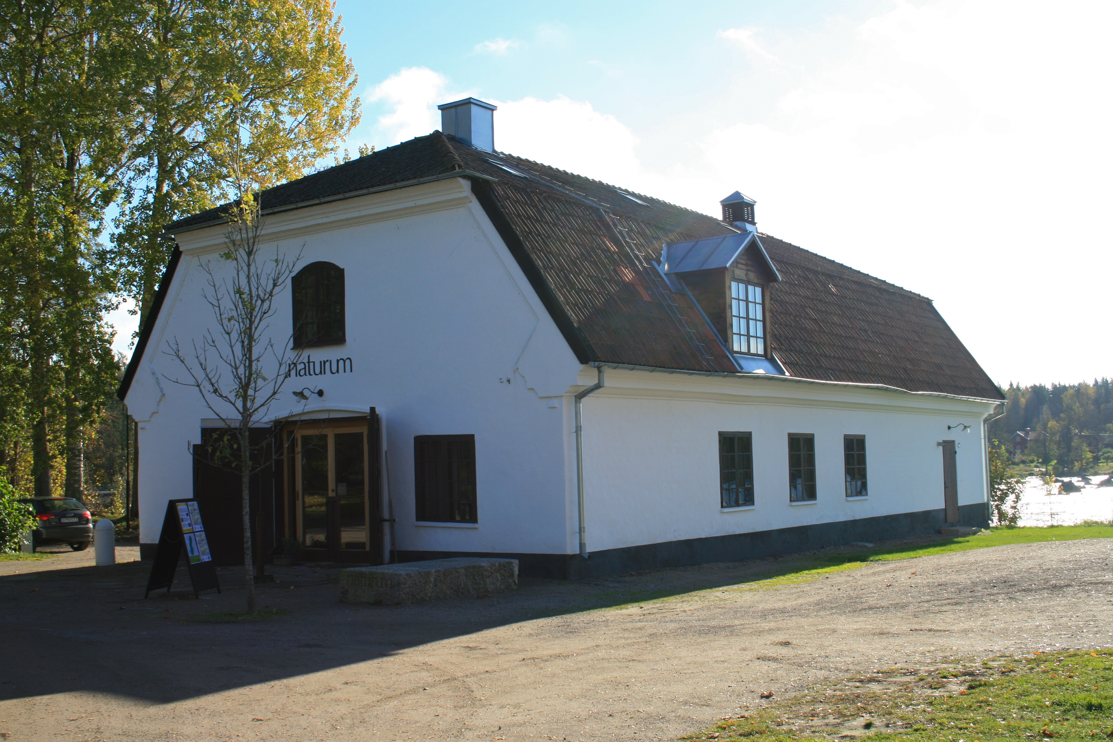 Naturum of Färnebofjärden national park